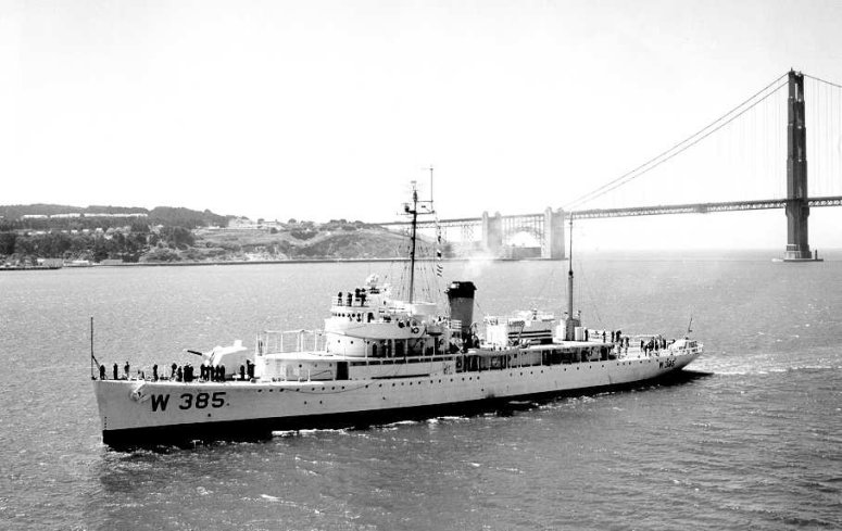 United States Coast Guard Cutter USCGC Dexter (WAVP-385), previously WACG-18, later WHEC-385